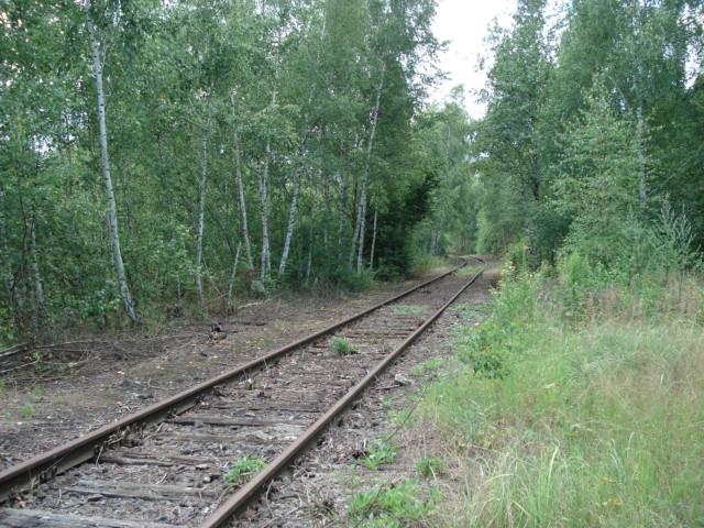 Hansabahn HHW 6141, Dortmund-Huckarde, view towards former Kokerei Hansa north of Lindbergstraße